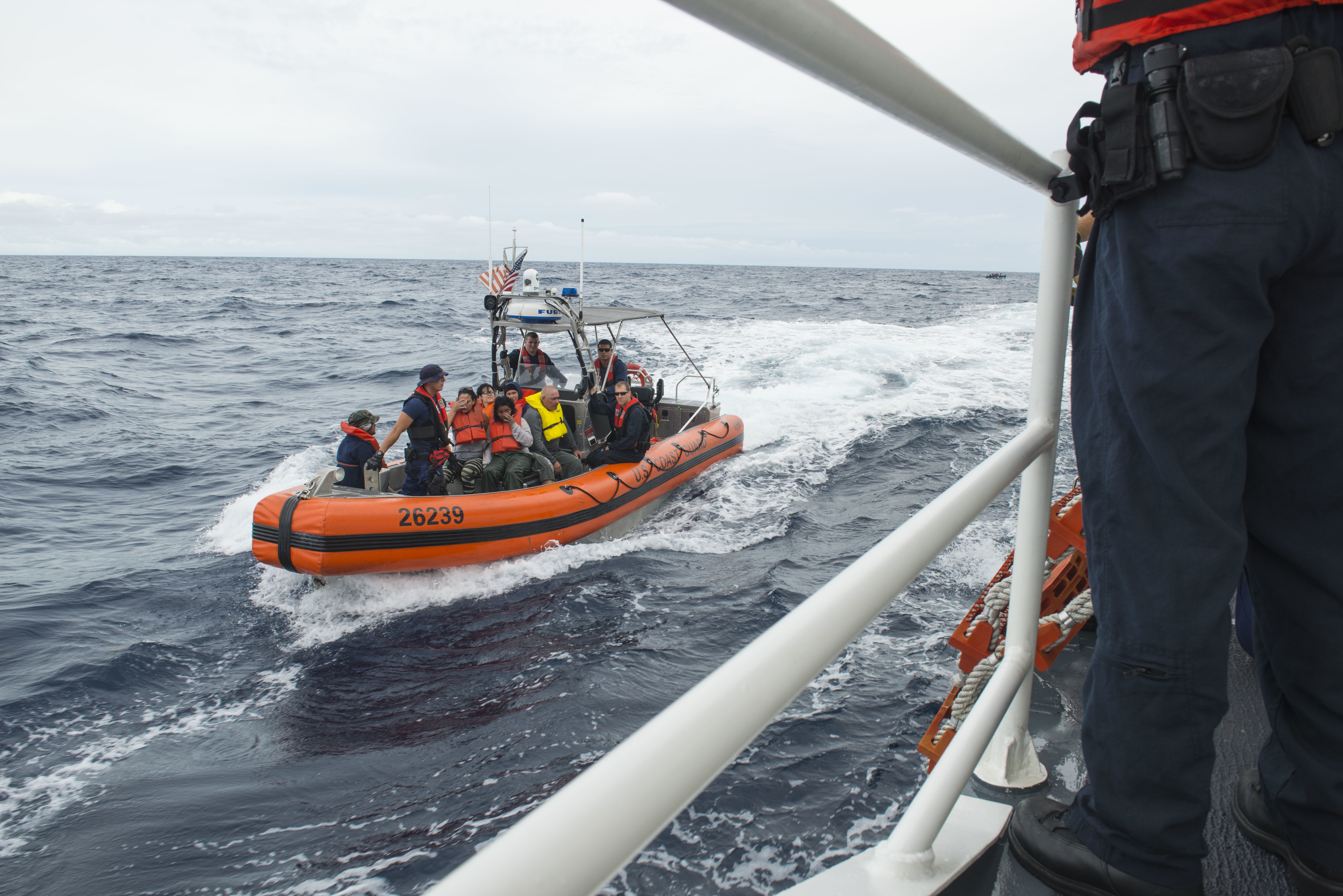 Crewmembers aboard the Coast Guard Cutter Kathleen Moore, homeported in Key West, Fla., prepare to receive Cuban nationals interdicted in the Florida Straits, Dec. 7, 2015. In the course of three days the crew of the Kathleen Moore interdicted 50 Cuban migrants allegedly attempting to enter the U.S. illegally. (U.S. Coast Guard photo by Petty Officer 3rd Class Ashley J. Johnson)